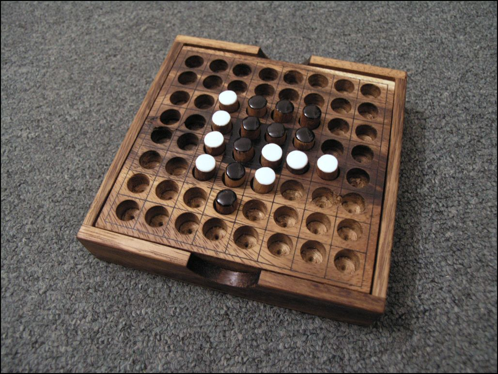 Travel Othello/Reversi